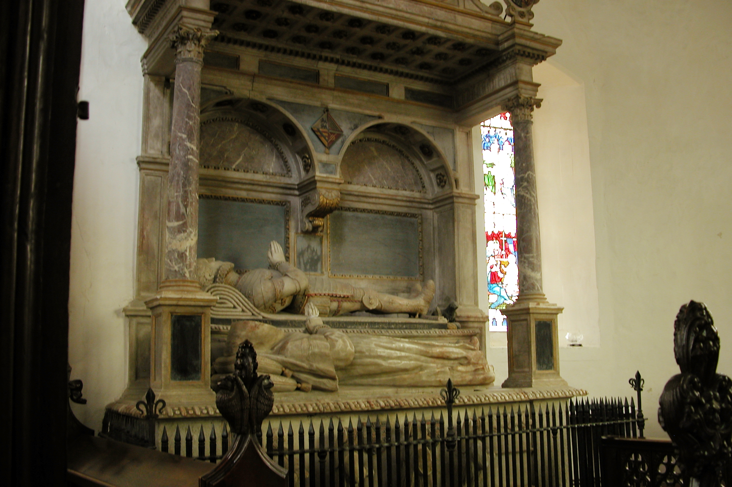 All Saints Church Wing, Buckinghamshire, England - Anglo Saxon Church